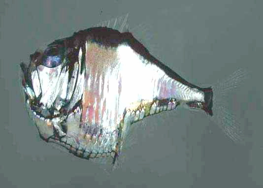 Brighter version of Image:Lovely_hatchetfish.jpg